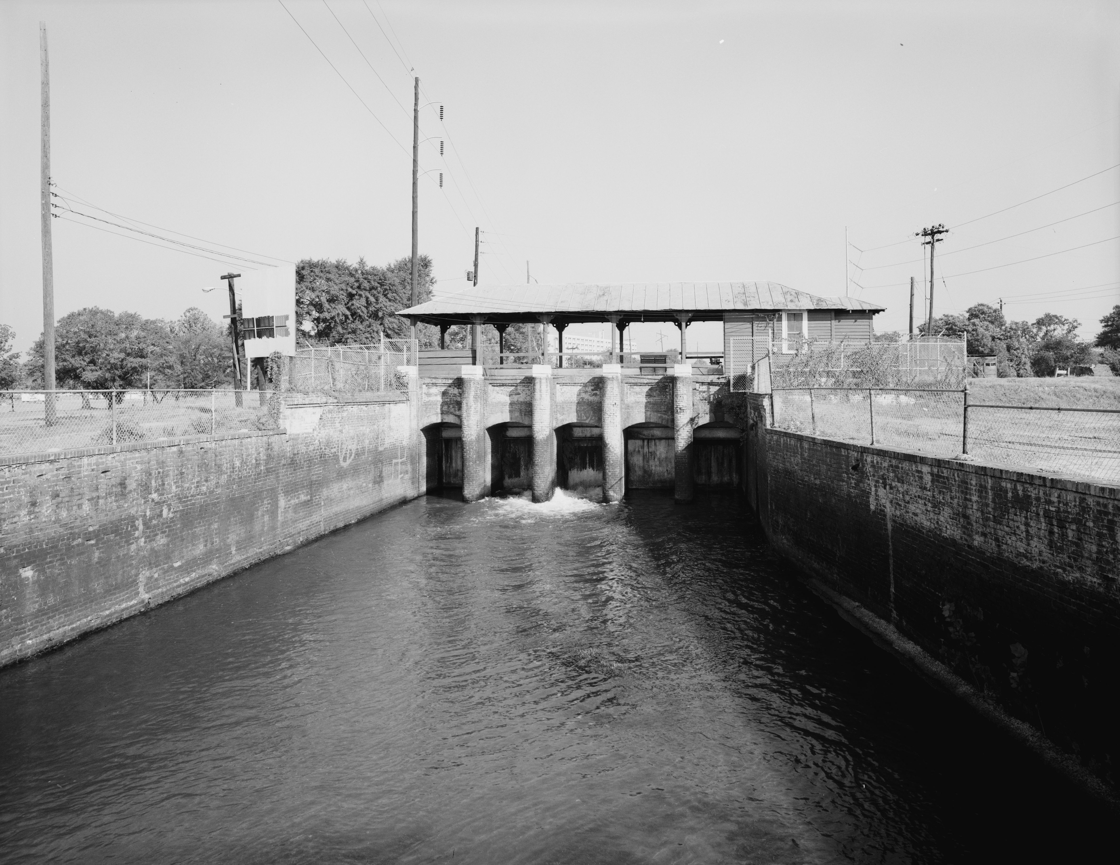 Augusta Canal, Augusta, Georgia, USA (cropped)